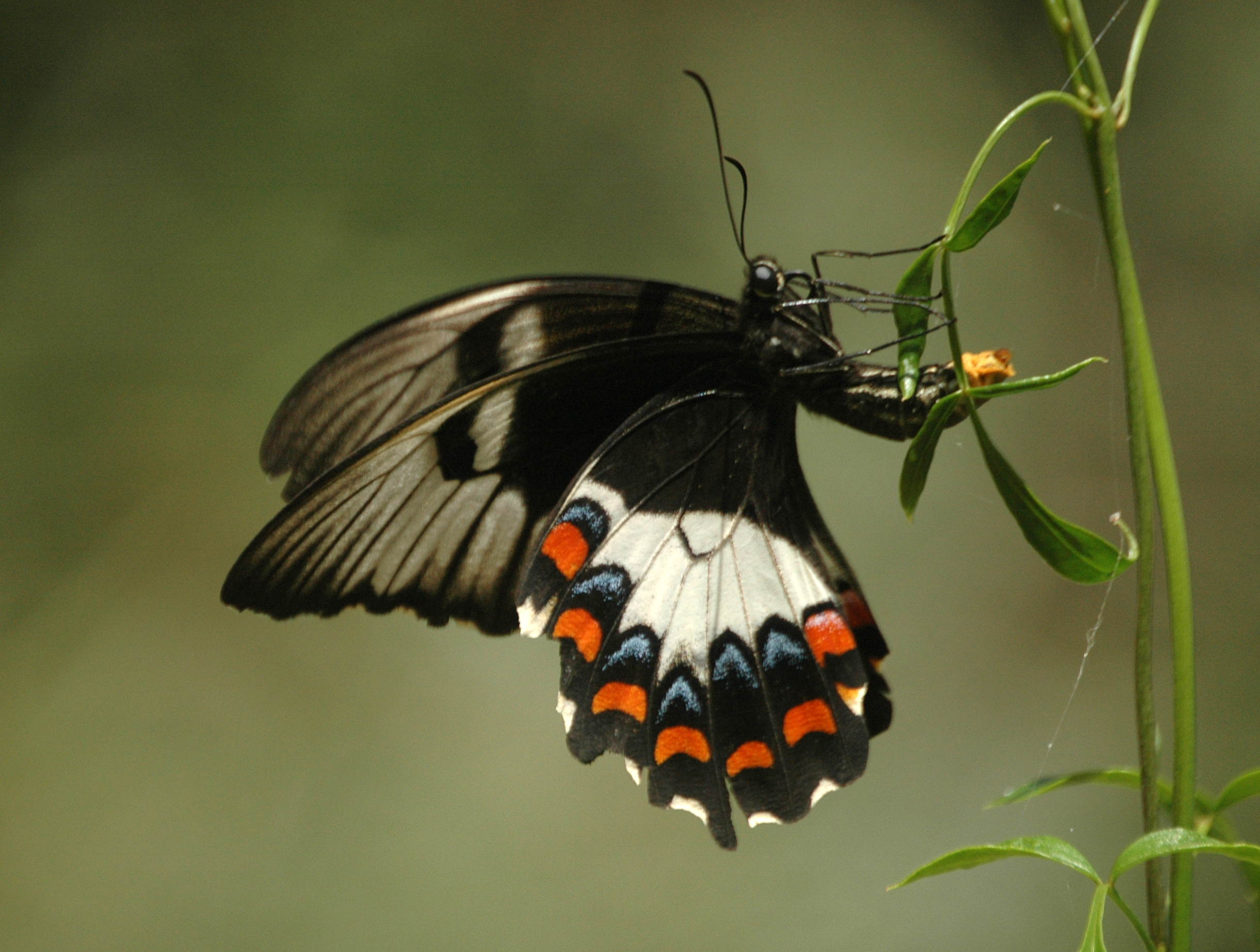 Orchard Butterfly (Papilio aegeus)